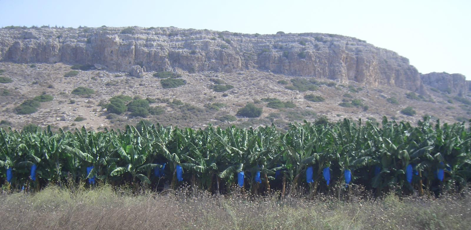 Bananas Near Ma'agan Michael